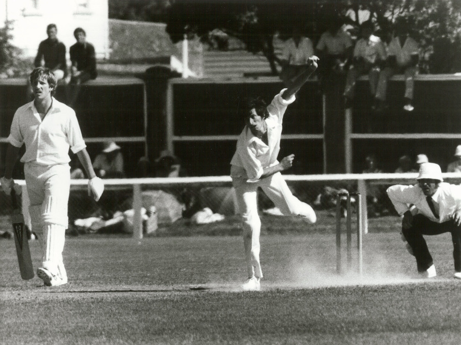 February 1978, Basin Reserve, Wellington AAQT 6539 W3537 box 16 L7/15/5/199 Archives New Zealand